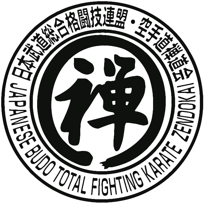 official Zendokai Logo